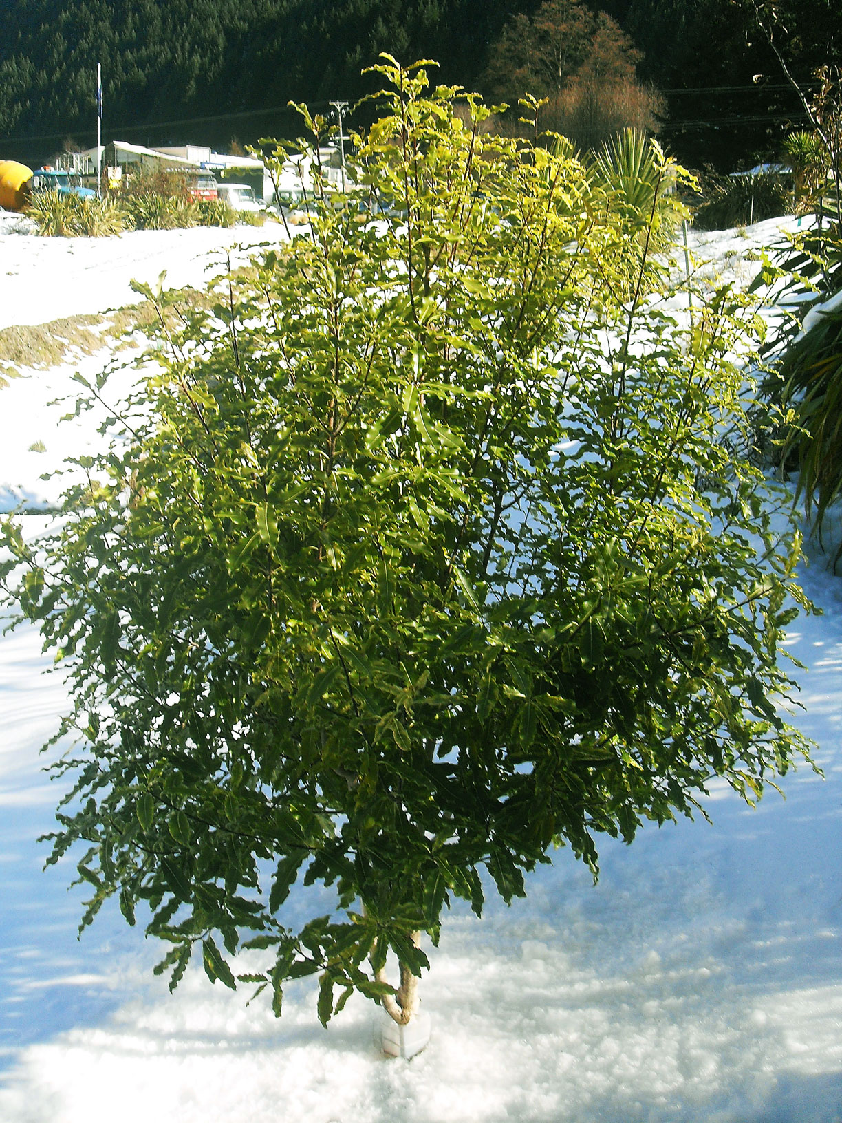 Pittosporum eugenioides (Lemonwood or tarata) in snow-Queenstown.